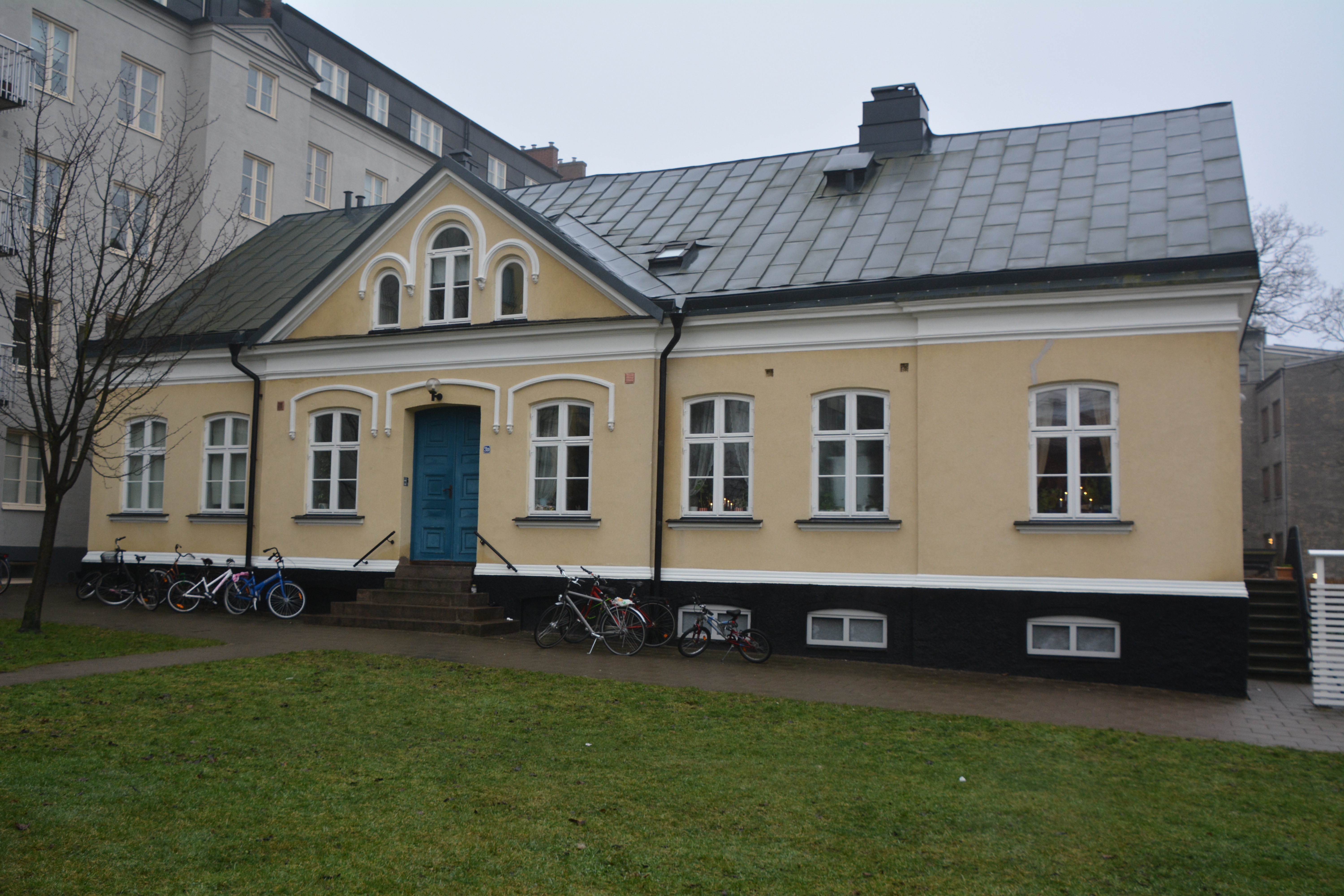 Spoletorp, Lund